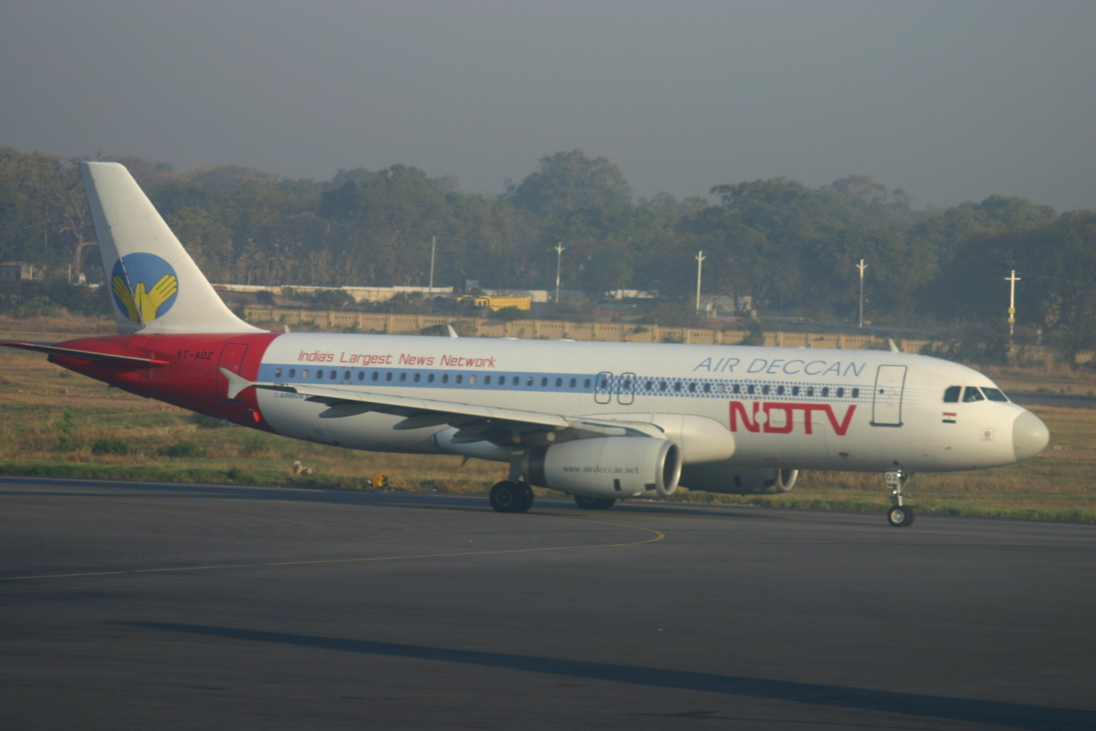 At Hyderabad Begumpet Airport